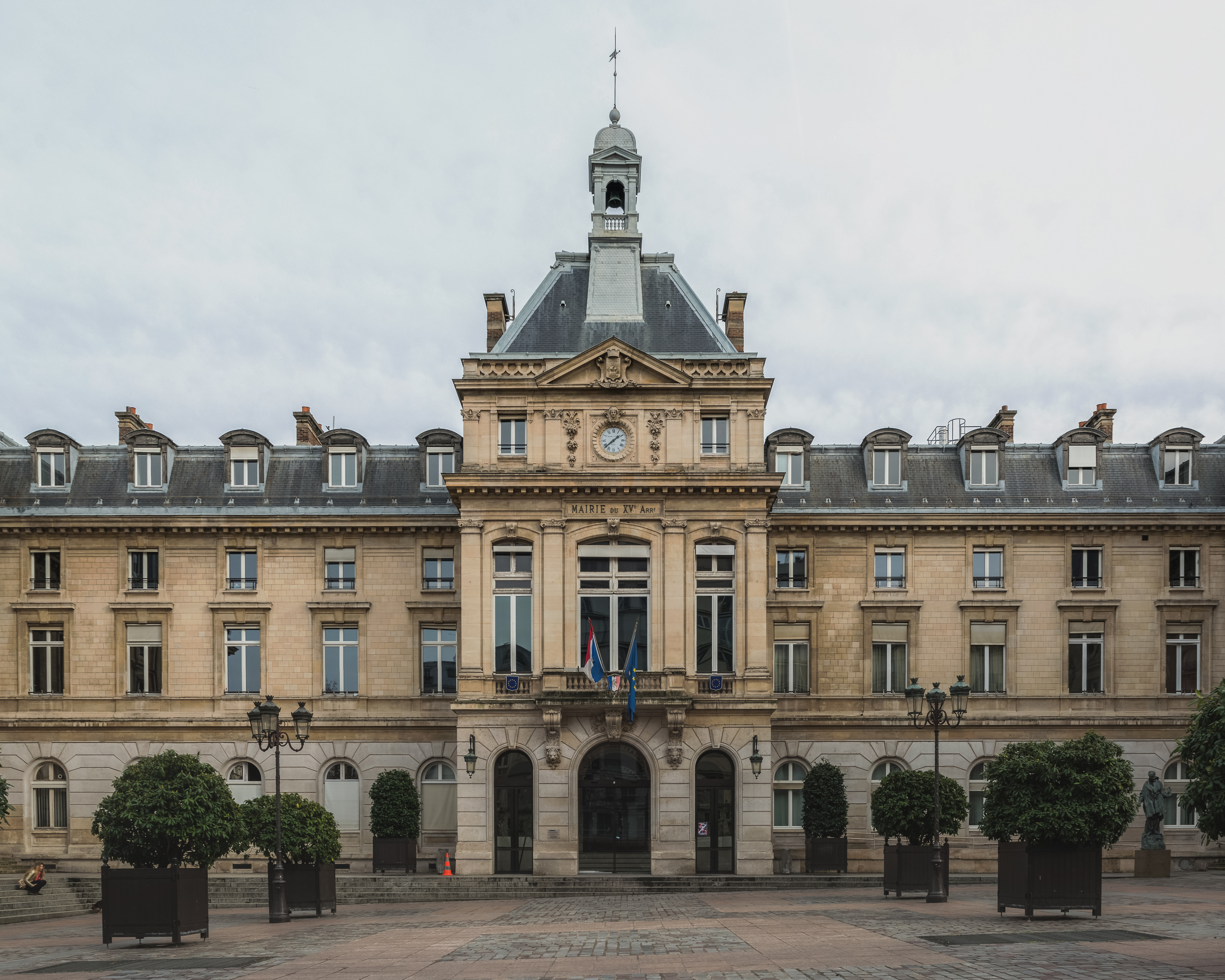 The "Mairie du 15e Arrondissement", the town hall of the 15th arrondissement of Paris